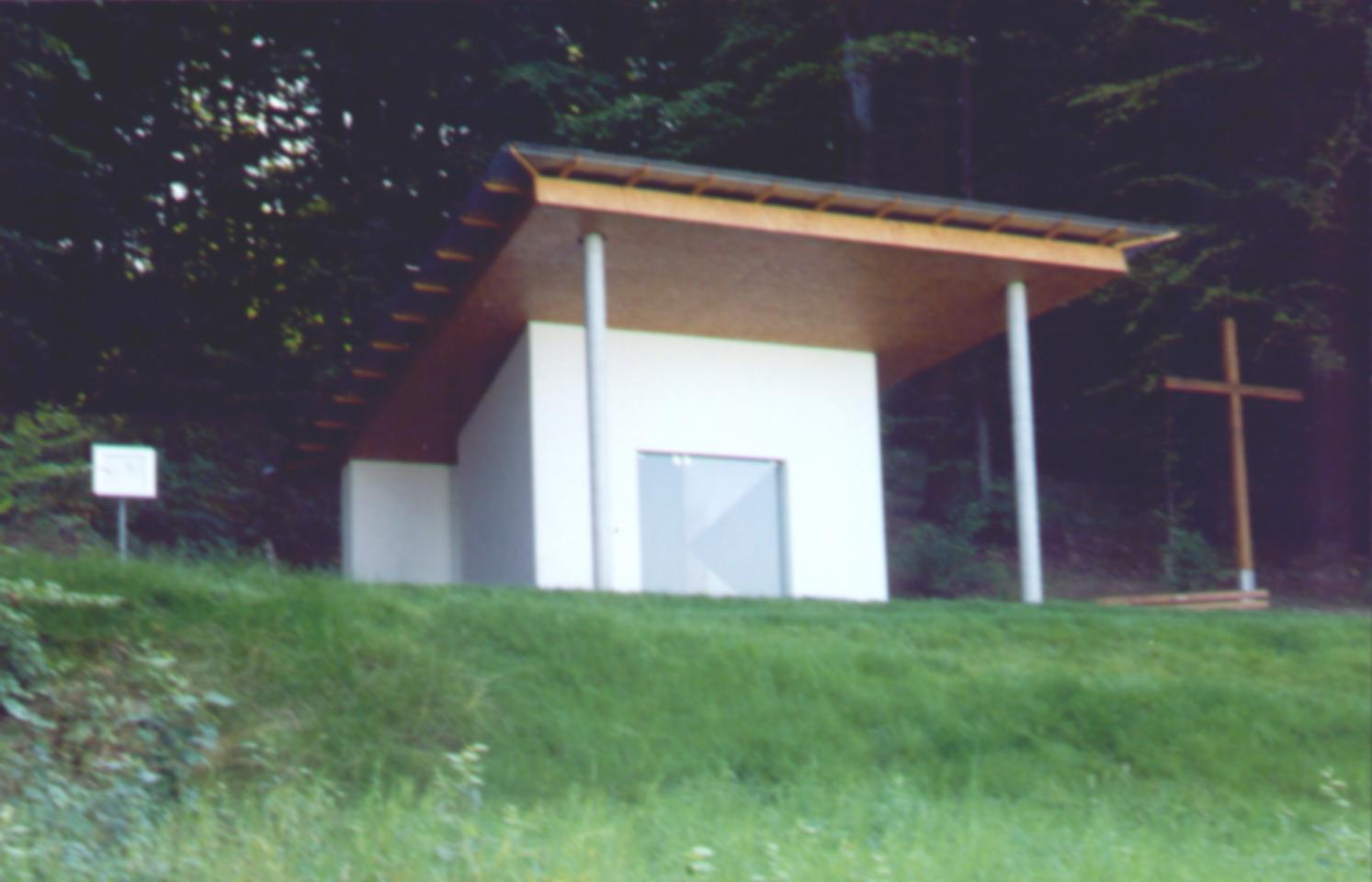 Kolpingkapelle in Garitz, a quarter of the German spa town of Bad Kissingen in Lower Franconia (Bavaria)